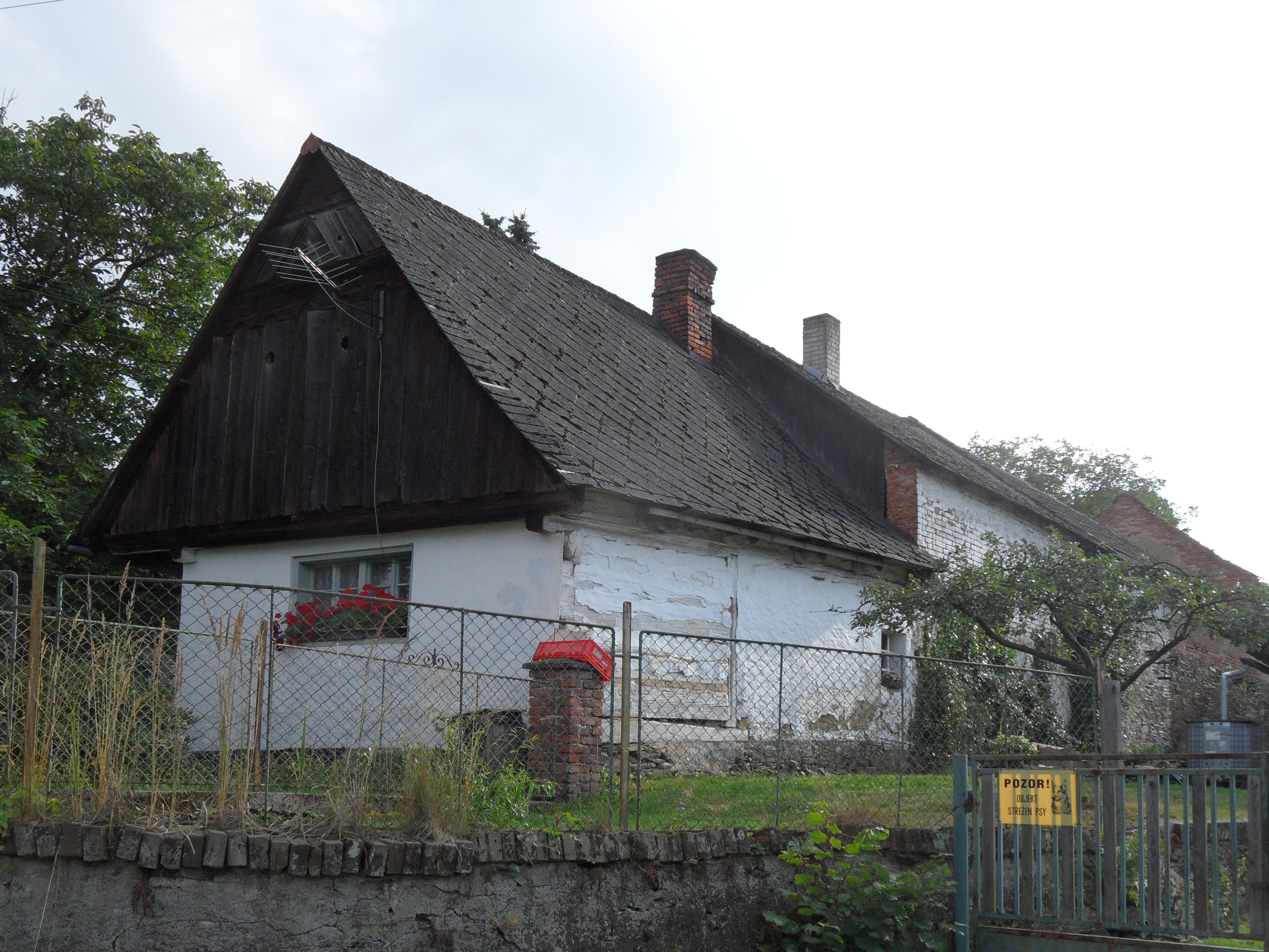 Kralice (Chlístovice) A. Old House, Village Square, Kutná Hora District, the Czech Republic.